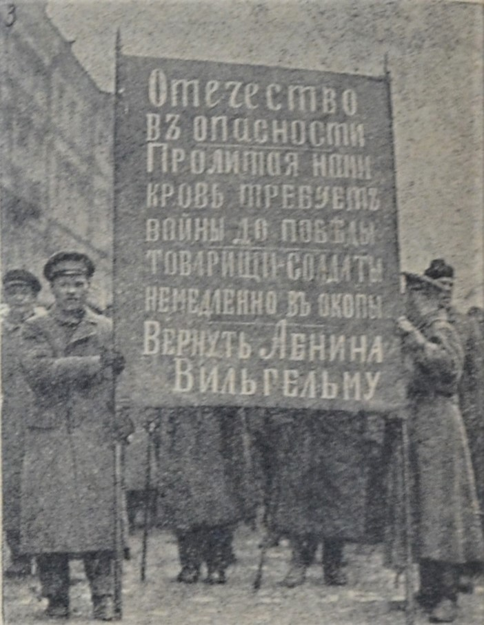 The demonstrators demand that soldiers return to fighting and Lenin to be sent back to Wilhelm. It is a reference to the German government permission to allow 32 Russian citizens to travel in a "sealed" train carriage through their territory, among them Lenin and his wife.